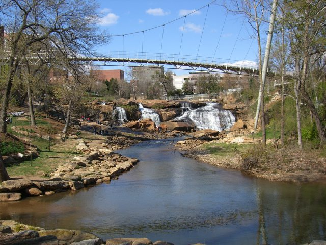 Falls Park on the Reedy, Greenville, South Carolina, USA